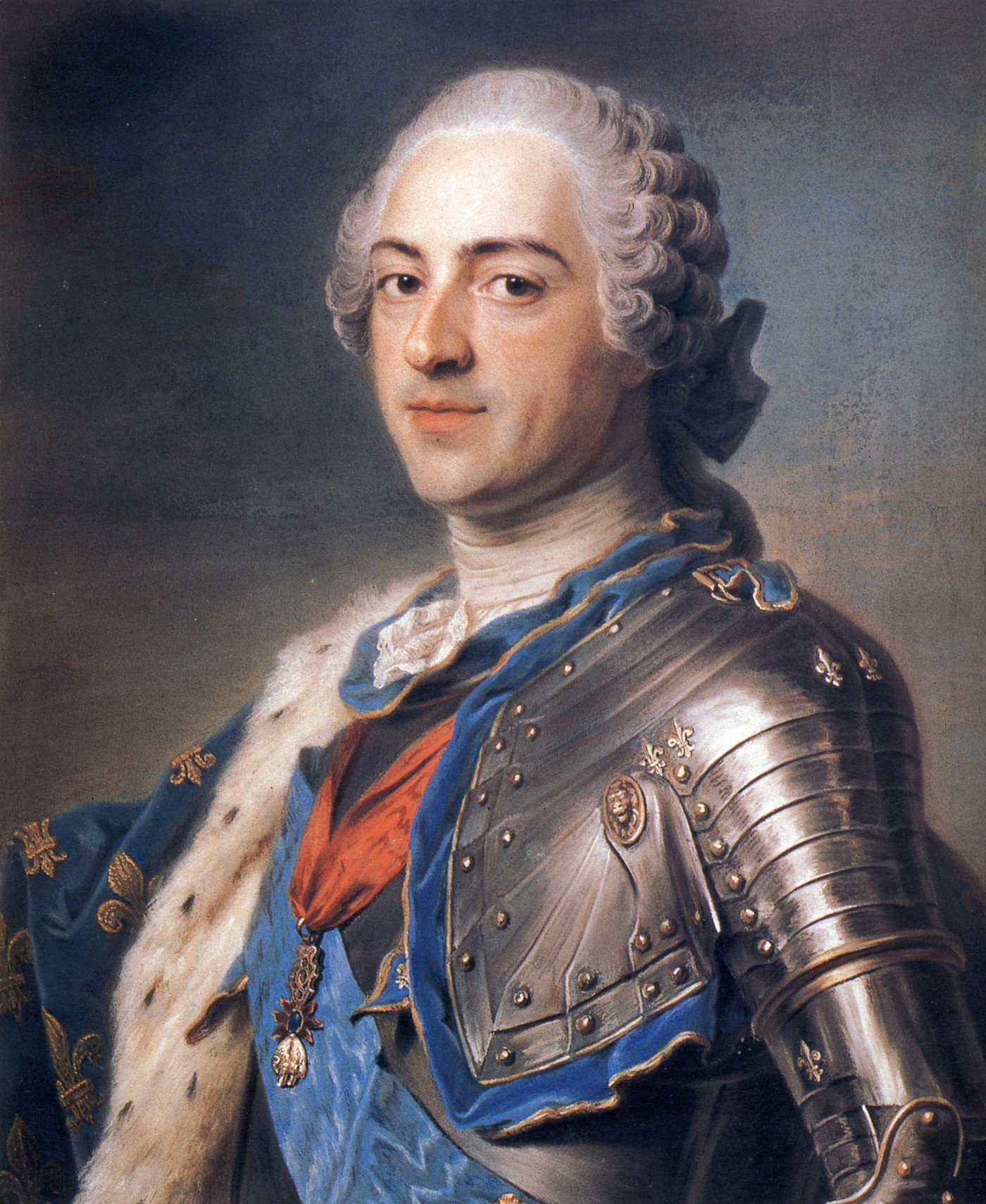 Portrait of Louis XV of France (1710-1774)